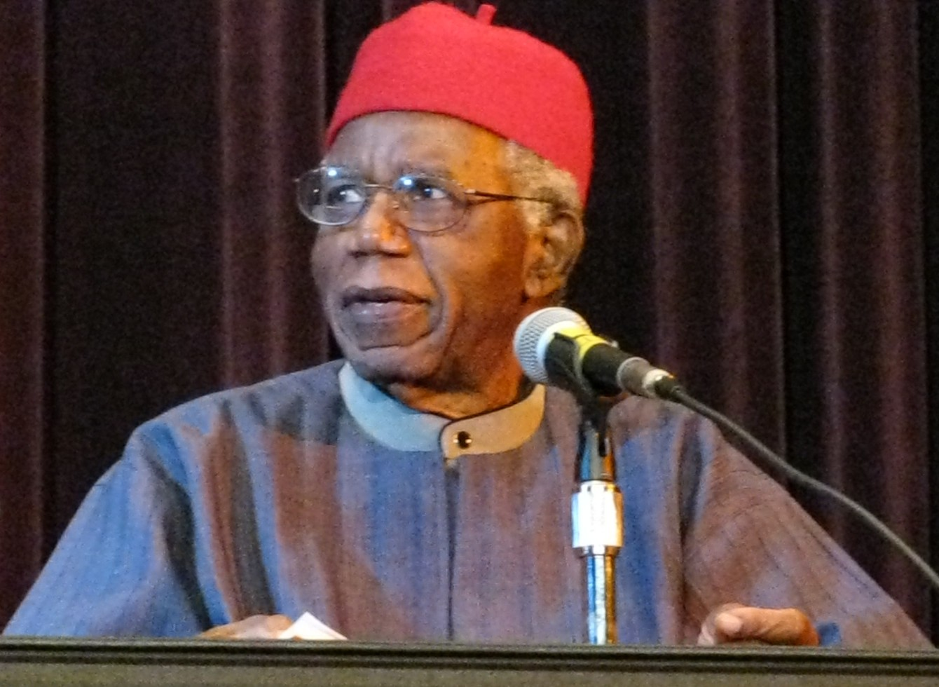 Chinua Achebe speaking at Asbury Hall, Buffalo, as part of the "Babel: Season 2" series by Just Buffalo Literary Center, Hallwalls, & the International Institute.